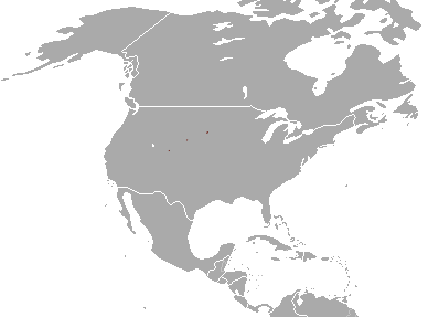 Black-footed Ferret (Mustela nigripes) range, along with national borders